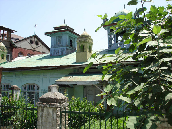 The first sufi saint who reached Kashmir, during the time of King Sehdev, was Sayed Sharafuddin Bulbul Shah from Turkey